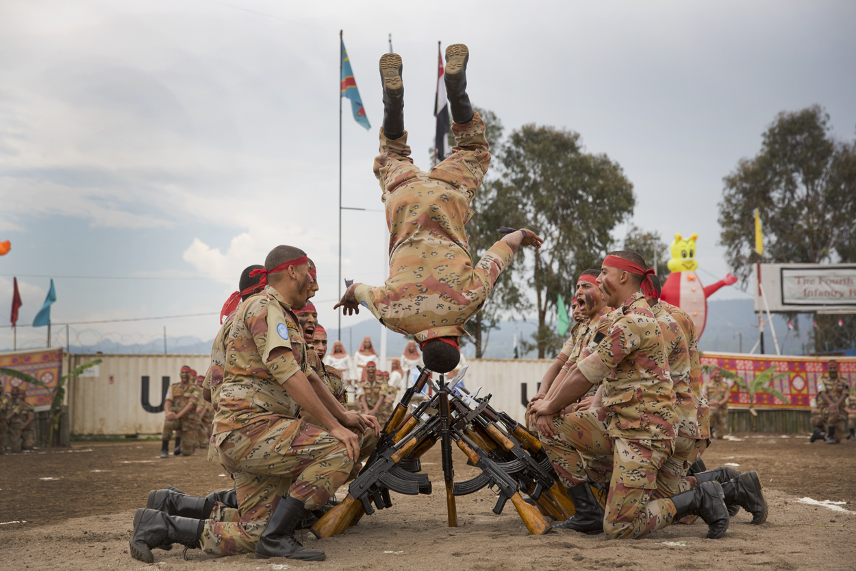 Members of Egyptian special forces perform during a medal parade in Bukavu.